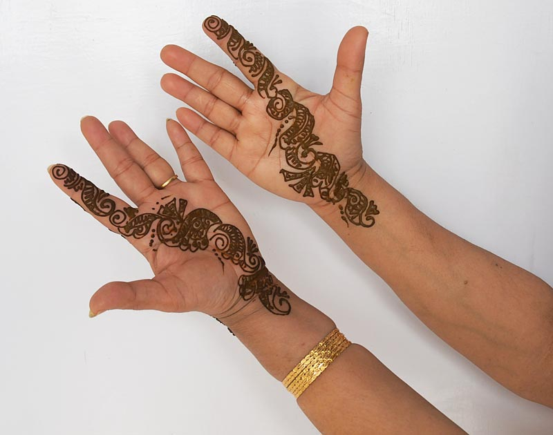 Mehendi or henna is applied on the hands by women during festive occasions in India.